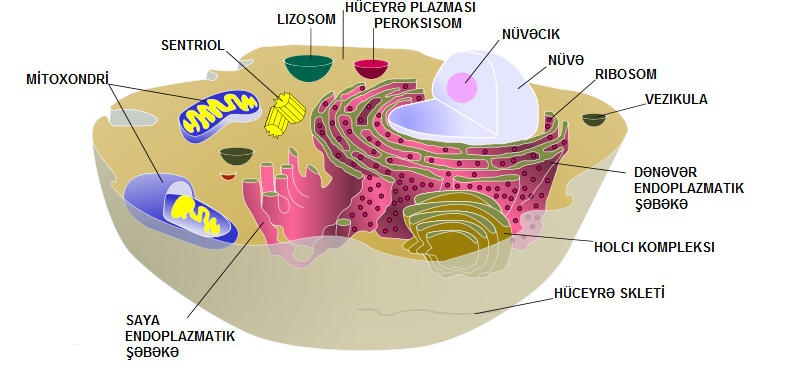 Diagram of a typical animal cell. Organelles are labelled as follows: # Nucleolus # Nucleus # Ribosome # Vesicle # Rough endoplasmic reticulum # Golgi apparatus (or "Golgi body") # Cytoskeleton # Smooth endoplasmic reticulum # Mitochondrion # Vacuole # Cytosol # Lysosome # Centriole